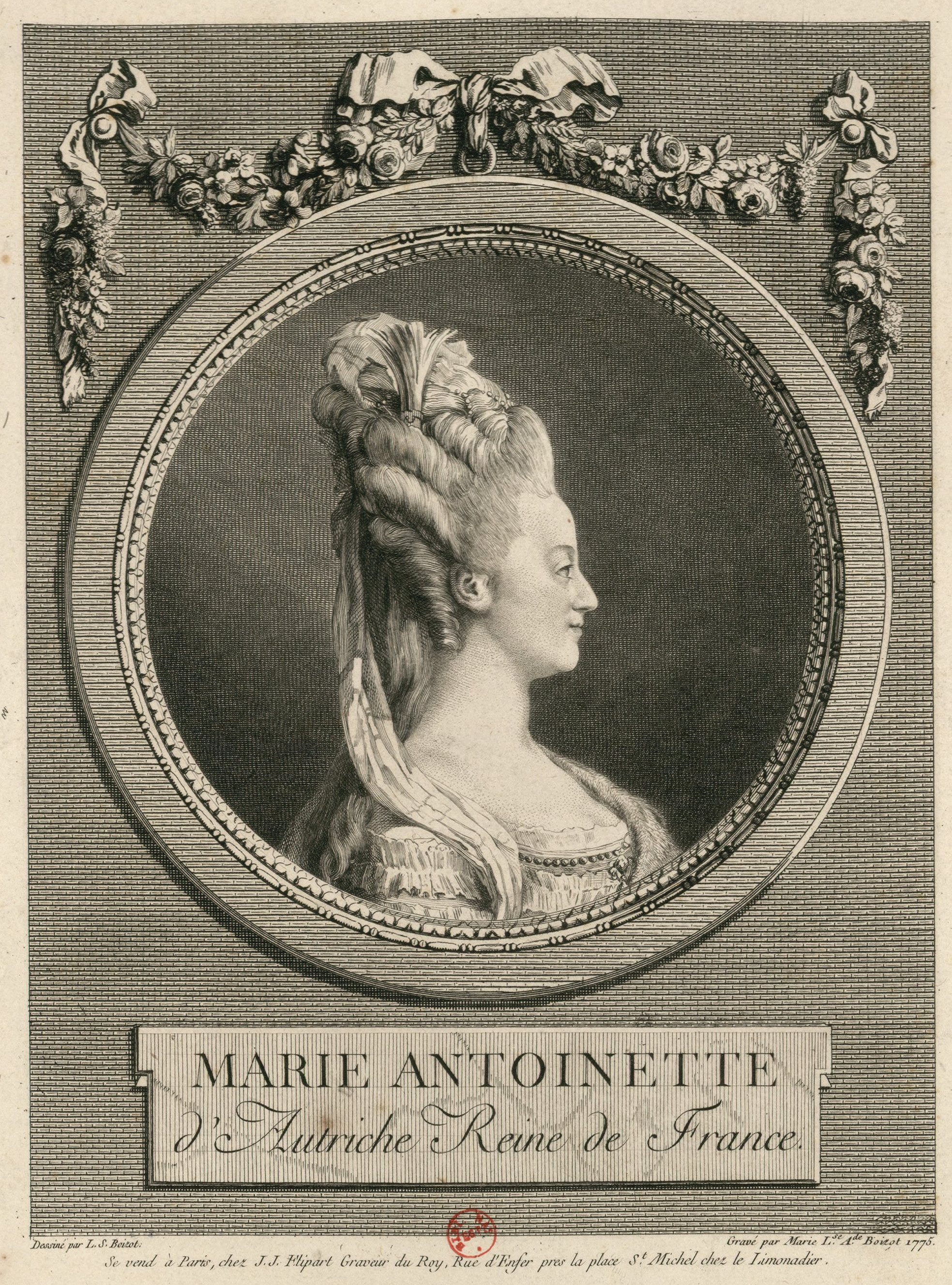 Engraved portrait of Marie Antoinette